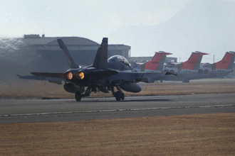 An F-18 at Marine Corps Air Station Iwakuni